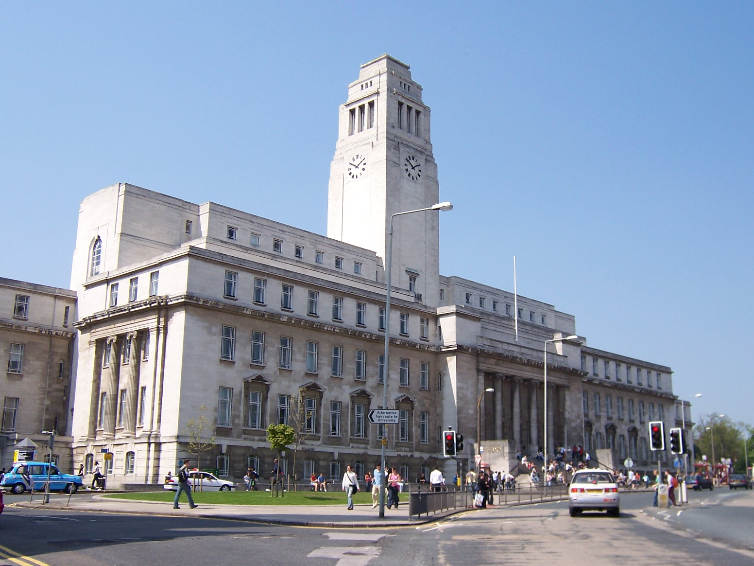 Parkinson Building, University of Leeds, West Yorkshire (England) own work; photo taken on 10 May 2006